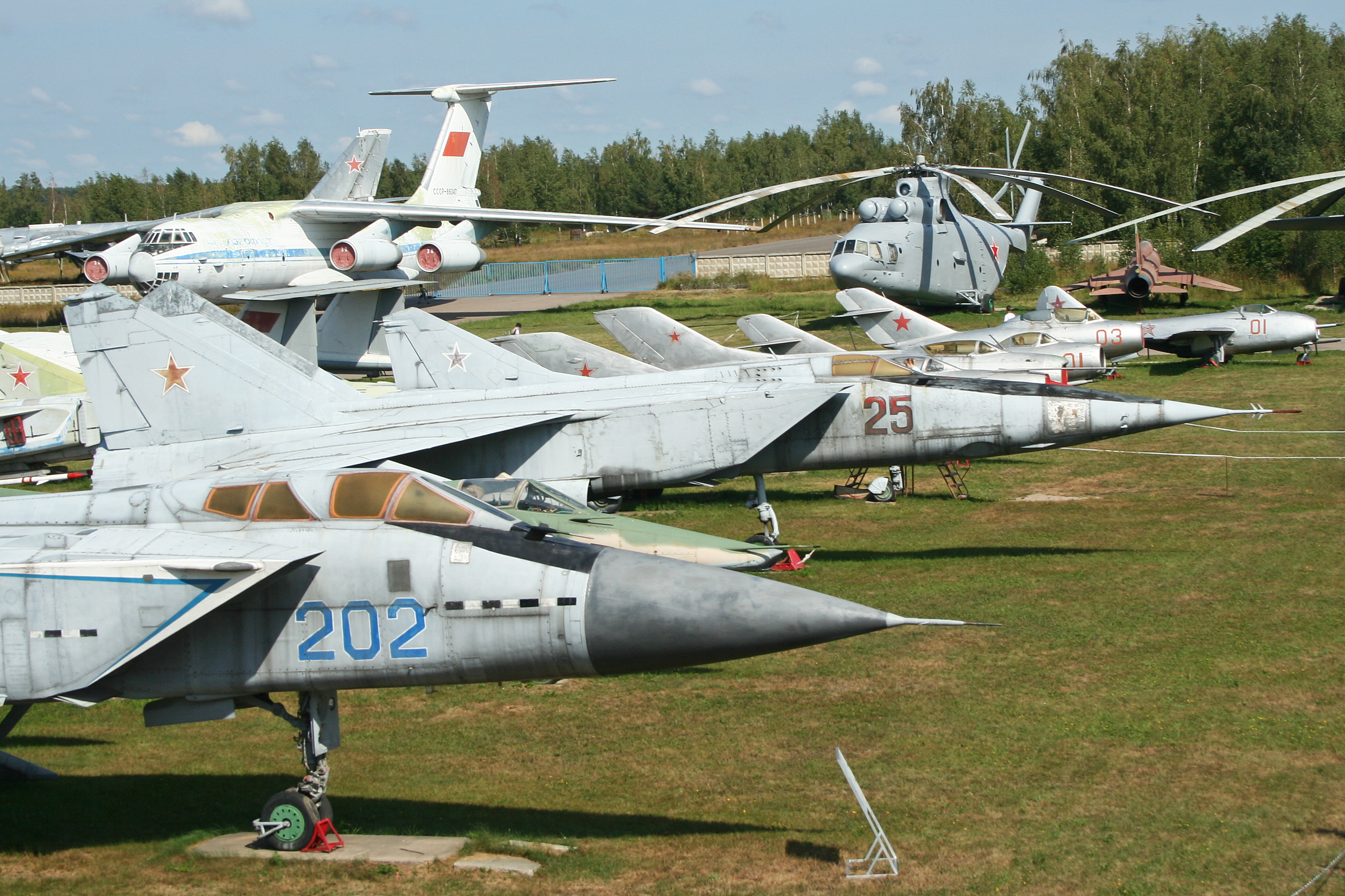 Taken from the Tu-144 access steps, this shot shows the main row of MiG fighters at Monino. From near to far:- MiG-31 '202 blue', MiG-27 '01 red', MiG-25R '25 red', MiG-23 '231 blue' MiG-21S '93 red', MiG-19PM '11 red' MiG-17 '01 red' MiG-15UTI '03 red' and MiG-9 '01 red'. Visible in the far background are a Tu-95 'Bear', an IL-76, a Mil-26 'Halo' and an Su-17 'Fitter'. Individual photos and details of all these aircraft appear elsewhere in this set. All are on display at the Russian Air Force Museum. Monino, Russia. 13-8-2012